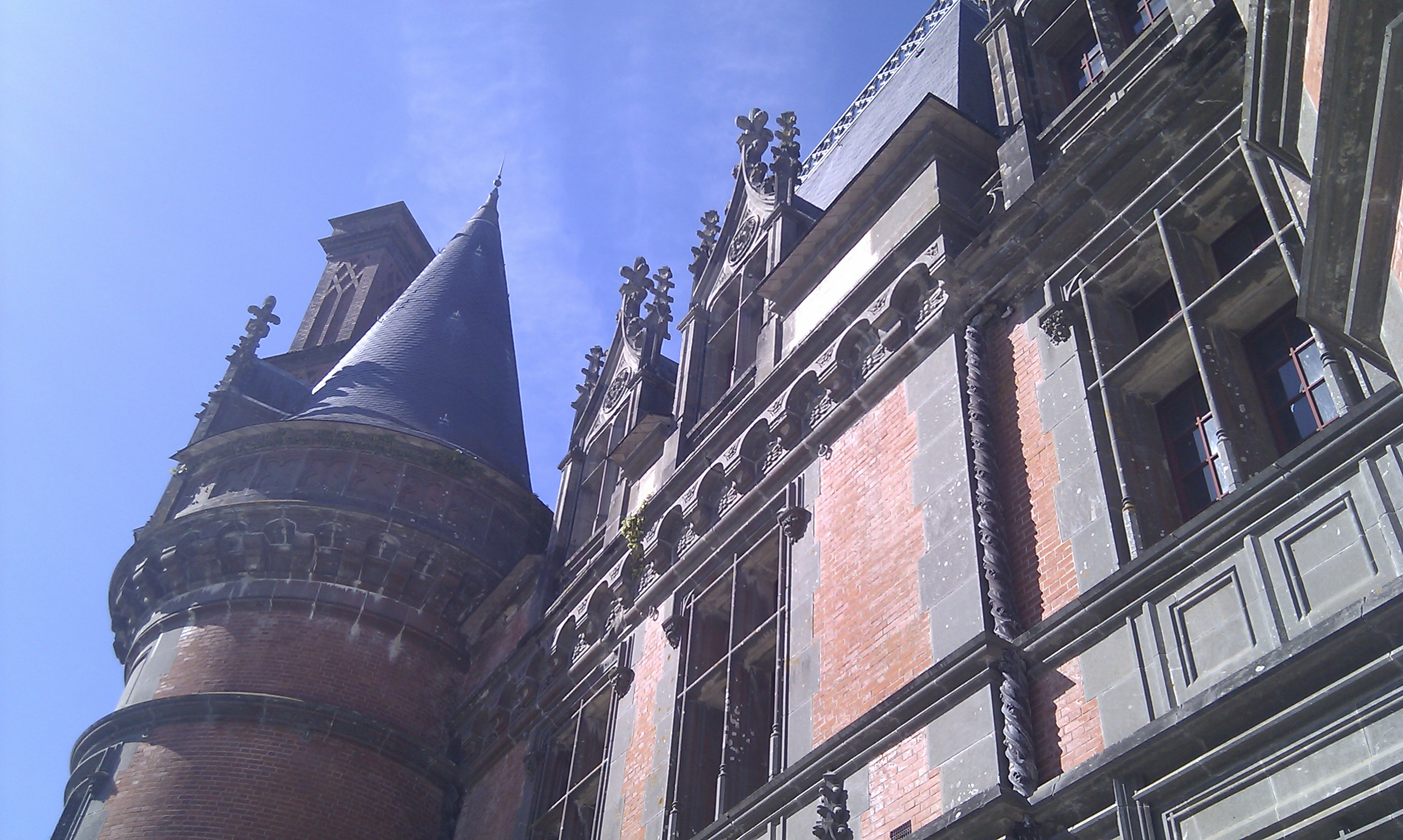 View of the Trévarez castle.